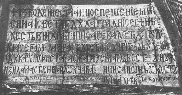 Rilevo Church Inscription